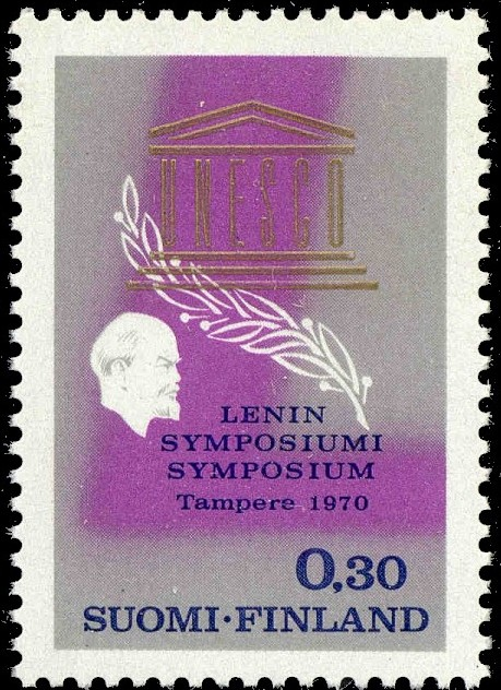 Vladimir Lenin - 100 years anniversary and symposium in Finland